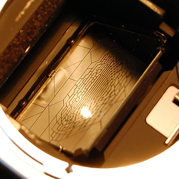 Detail of the part-silvered mirror in a Canon AL-1. The etchings in the mirror allowed light to pass through onto a secondary mirror, which diverted it onto the CCD array used for the "Quick-Focus" focus-confirmation system.